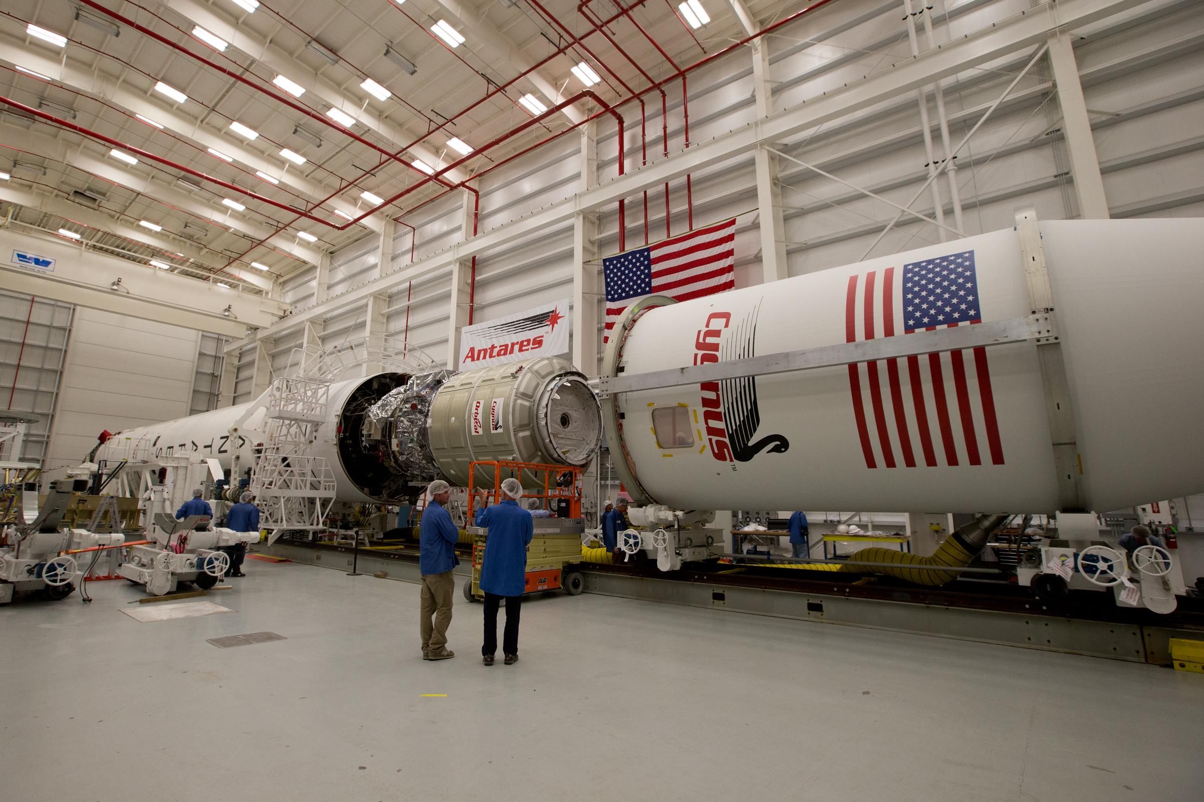 The payload fairing is installed on the Orbital Sciences Antares rocket at the Horizontal Integration Facility at NASA's Wallops Flight Facility on Virginia's Eastern Shore, Tuesday, July 8, 2014. The Antares rocket is scheduled to roll-out to Virginia's Mid-Atlantic Regional Spaceport Pad 0A Wednesday, July 9, ahead of its scheduled launch July 11. The Antares rocket will carry Orbital's unmanned Cygnus spacecraft to the International Space Station. This Orbital-2 mission's cargo is more than 3,000 pounds of supplies for the station, including science experiments to expand the research capability of the Expedition 40 crew members aboard the orbiting laboratory, crew provisions, spare parts and experiment hardware.